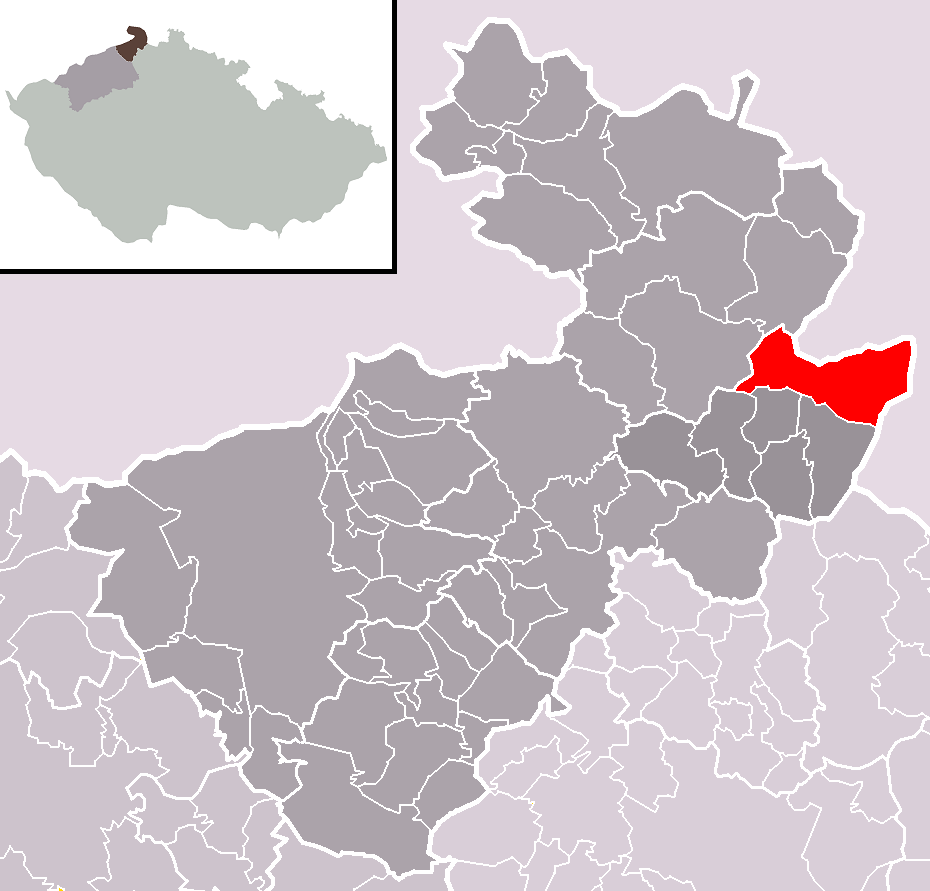 Location of Varnsdorf town within Děčín District and administrative area of Varnsdorf as a Municipality with Extended Competence.